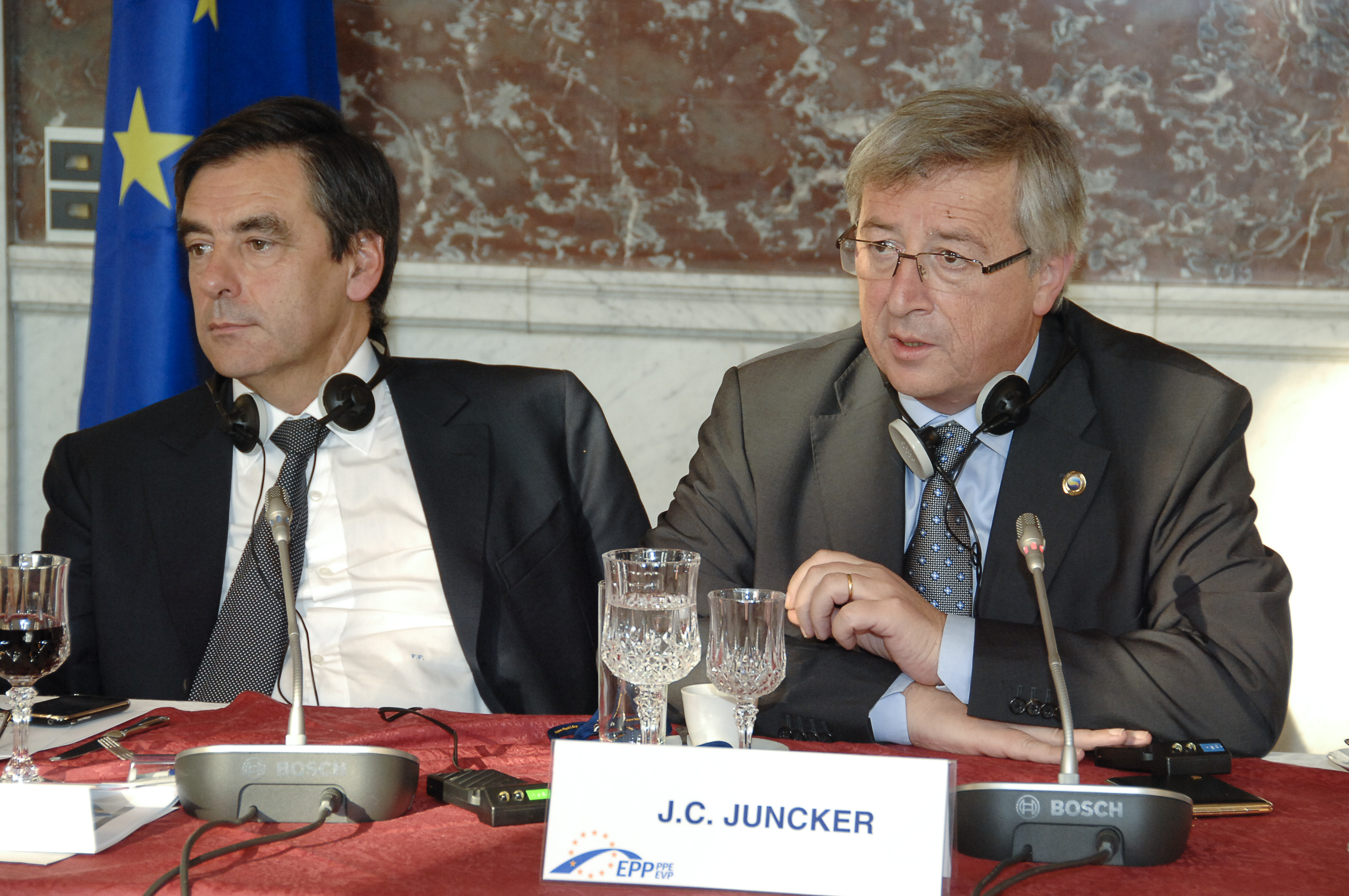 EPP Summit 29 October 2009